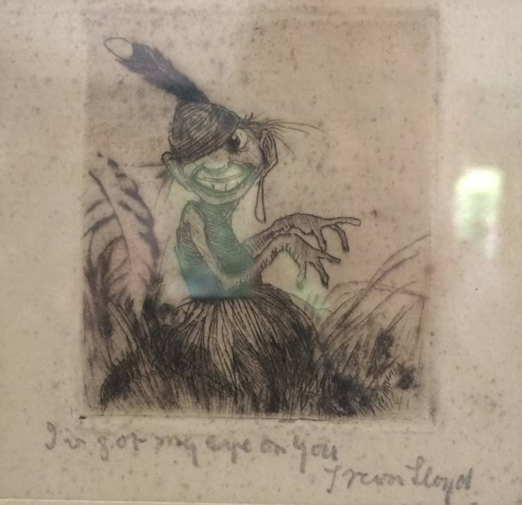 Photo of original artwork by Trevor Lloyd, 1863-1937